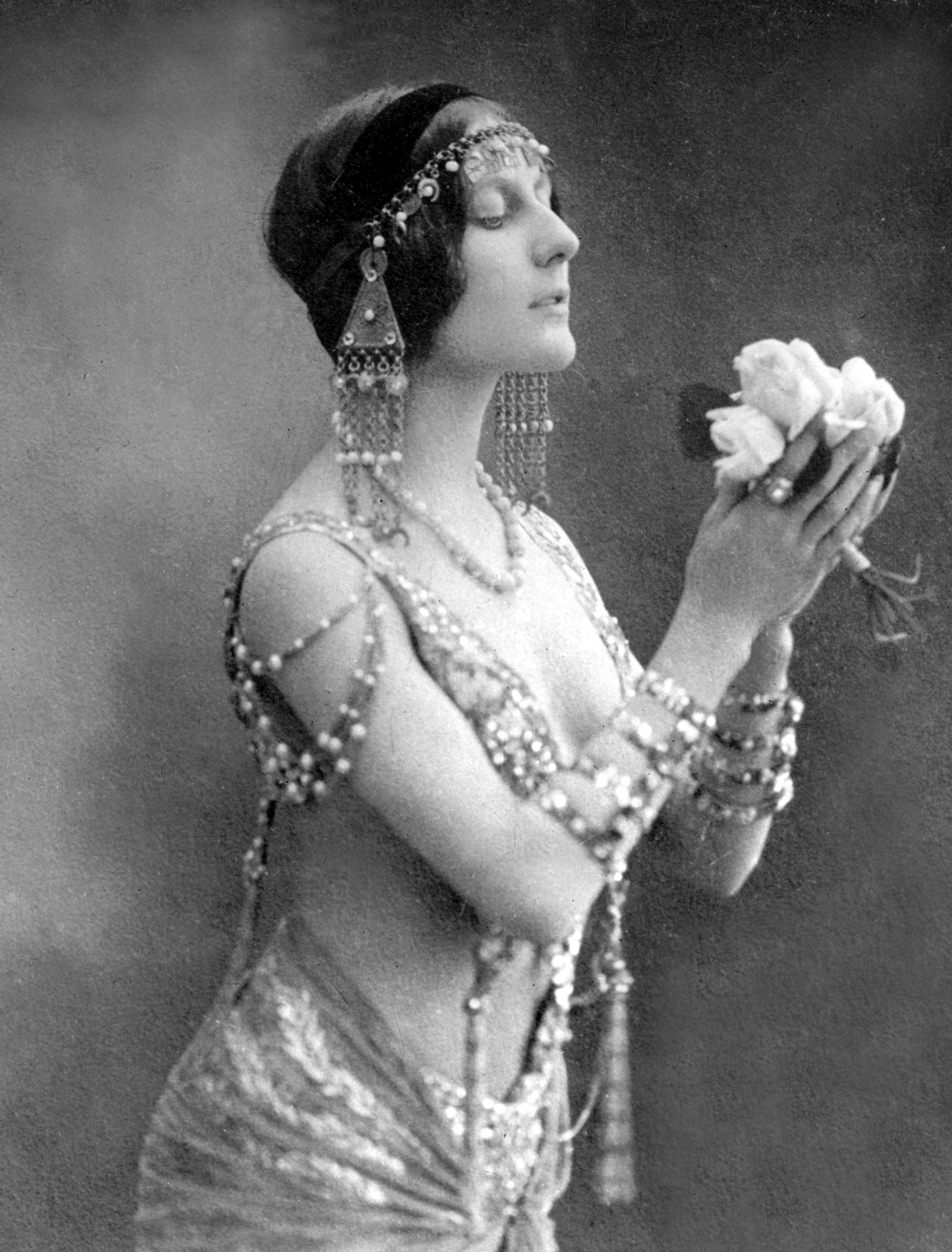 Bain News Service,, publisher. Napierkowska, cropped [no date recorded on caption card] 1 negative : glass ; 5 x 7 in. or smaller. Notes: Title from unverified data provided by the Bain News Service on the negatives or caption cards. Forms part of: George Grantham Bain Collection (Library of Congress). Format: Glass negatives. Repository: Library of Congress, Prints and Photographs Division, Washington, D.C. 20540 USA, General information about the Bain Collection is available at Persistent URL: Call Number: LC-B2- 2636-2